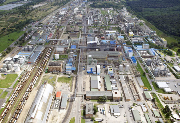 Kazincbarcika, Hungary, aerial photography